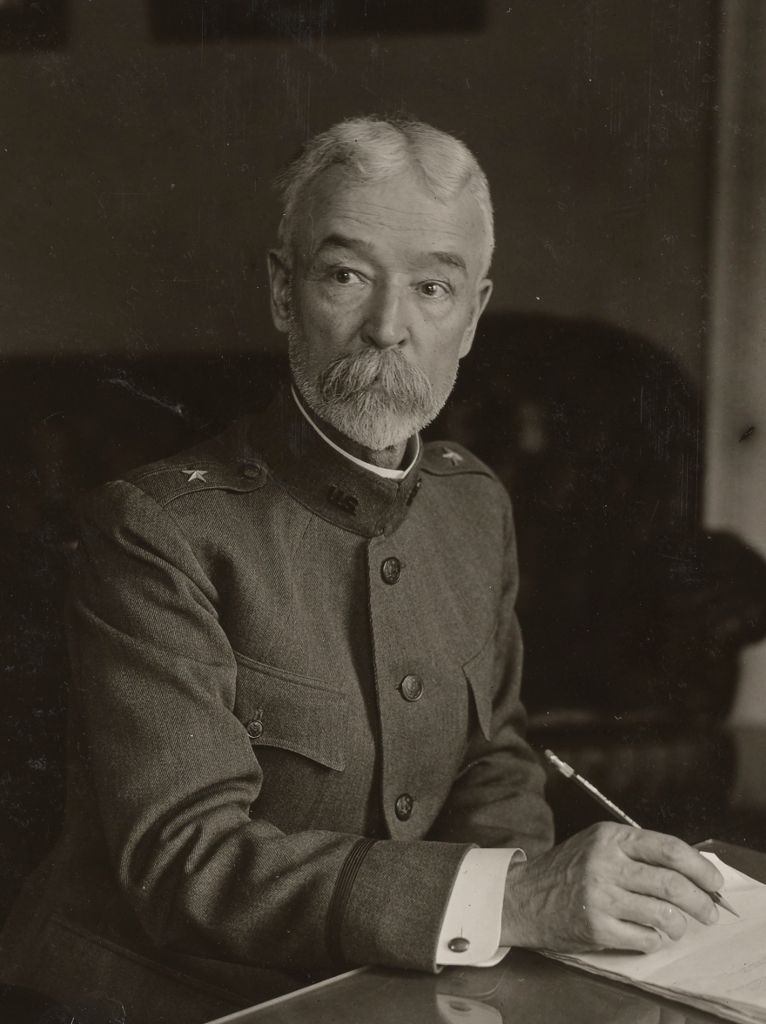 Brigadier General J. D. Barrette, acting chief of coast artillery